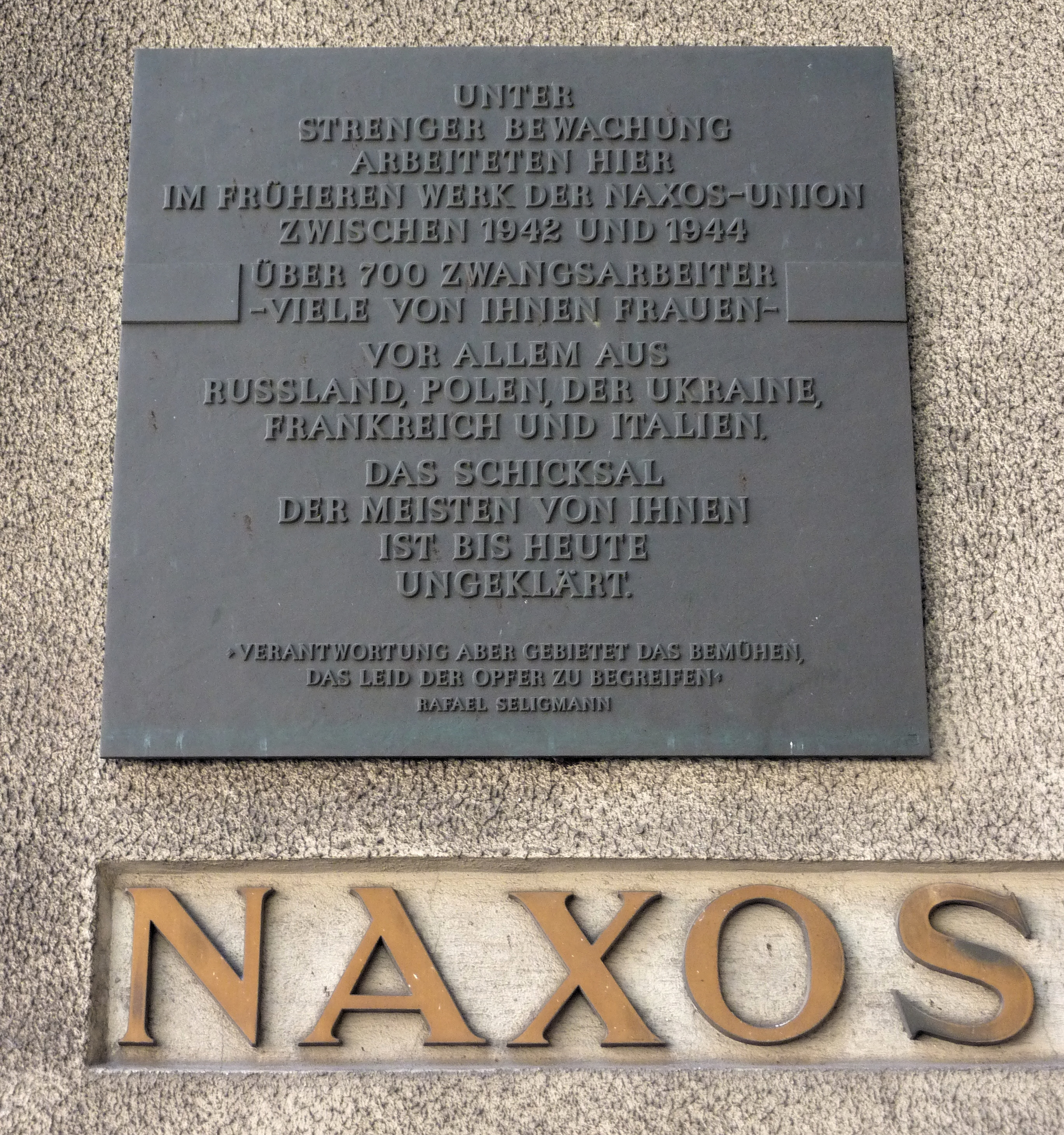 Frankfurt/M., Germany: Commemorative plaque at the Naxos-Union building. The company was a manufacturer of grinding machines since the late 1870s. From 1942 to 1944, during WWII, more than 700 people from other European countries were exploited on the company’s ground as forced labour, their fate still being largely unrevealed.